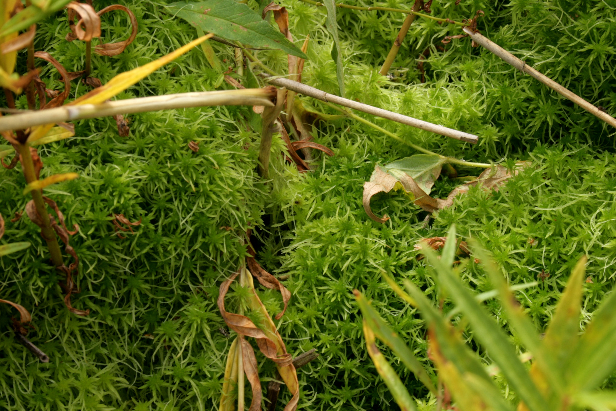 Sphagnum fimbriatum: Habitus. Beginning bog formation on old gravelly banks.